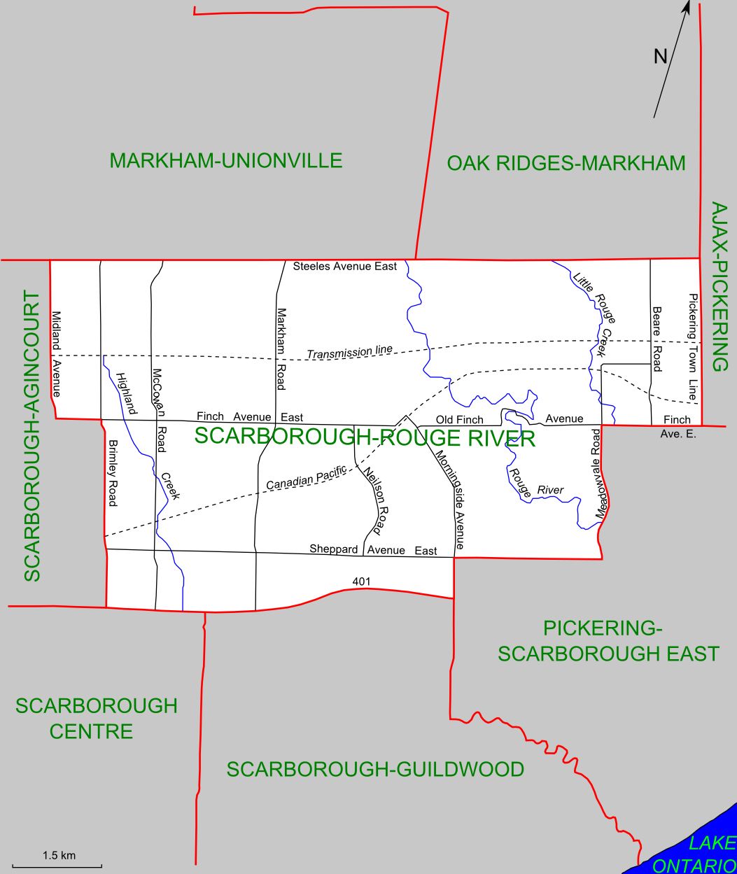 Map of the Ontario federal and provincial riding of Scarborough-Rouge River (boundaries defined federally in 2003 and adopted provincially in 2007)